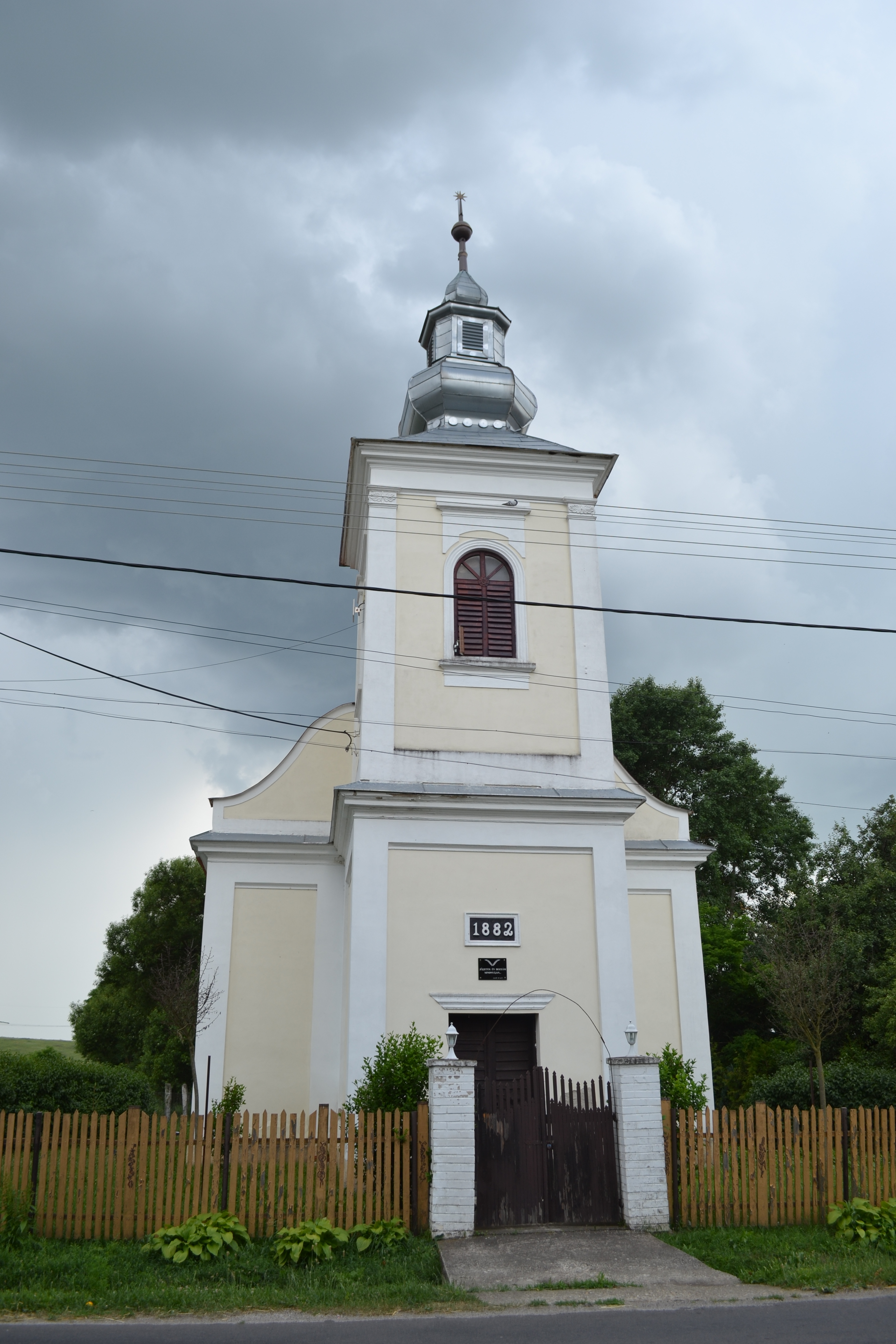 Reformed Church and wall in the Vieska nad BlhomSlovenčina: Kostol reformovanej cirkvi vo Vieske nad Blhom